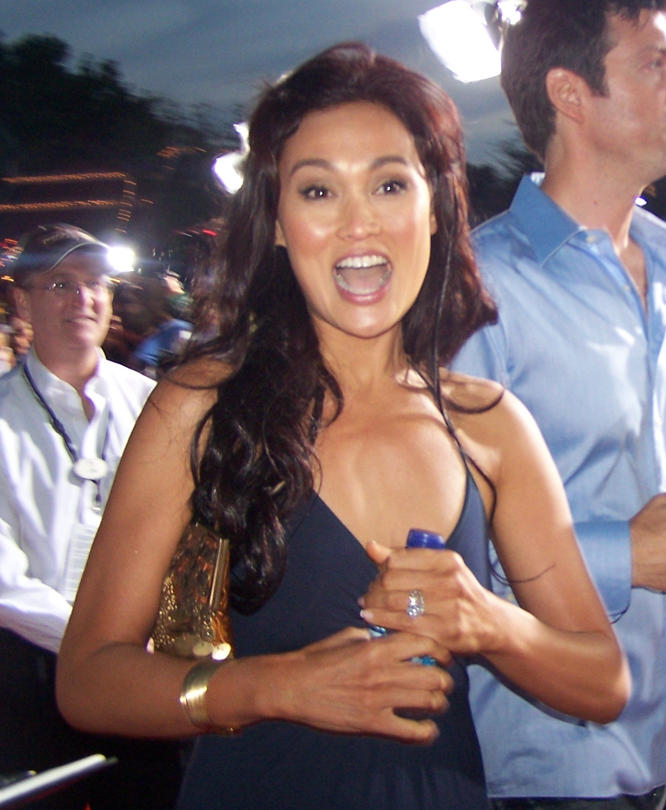 American actress Tia Carrere.